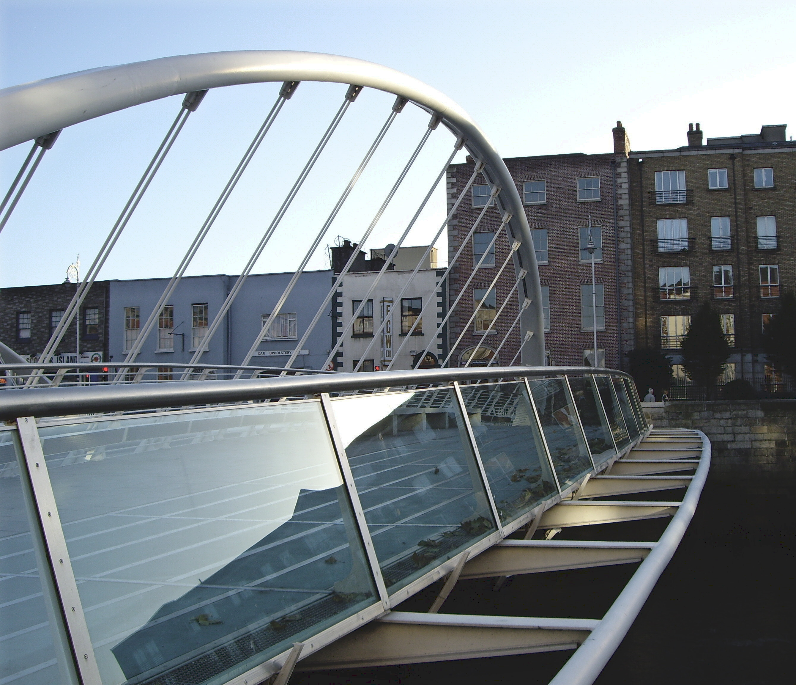 James Joyce Bridge view from north west corner